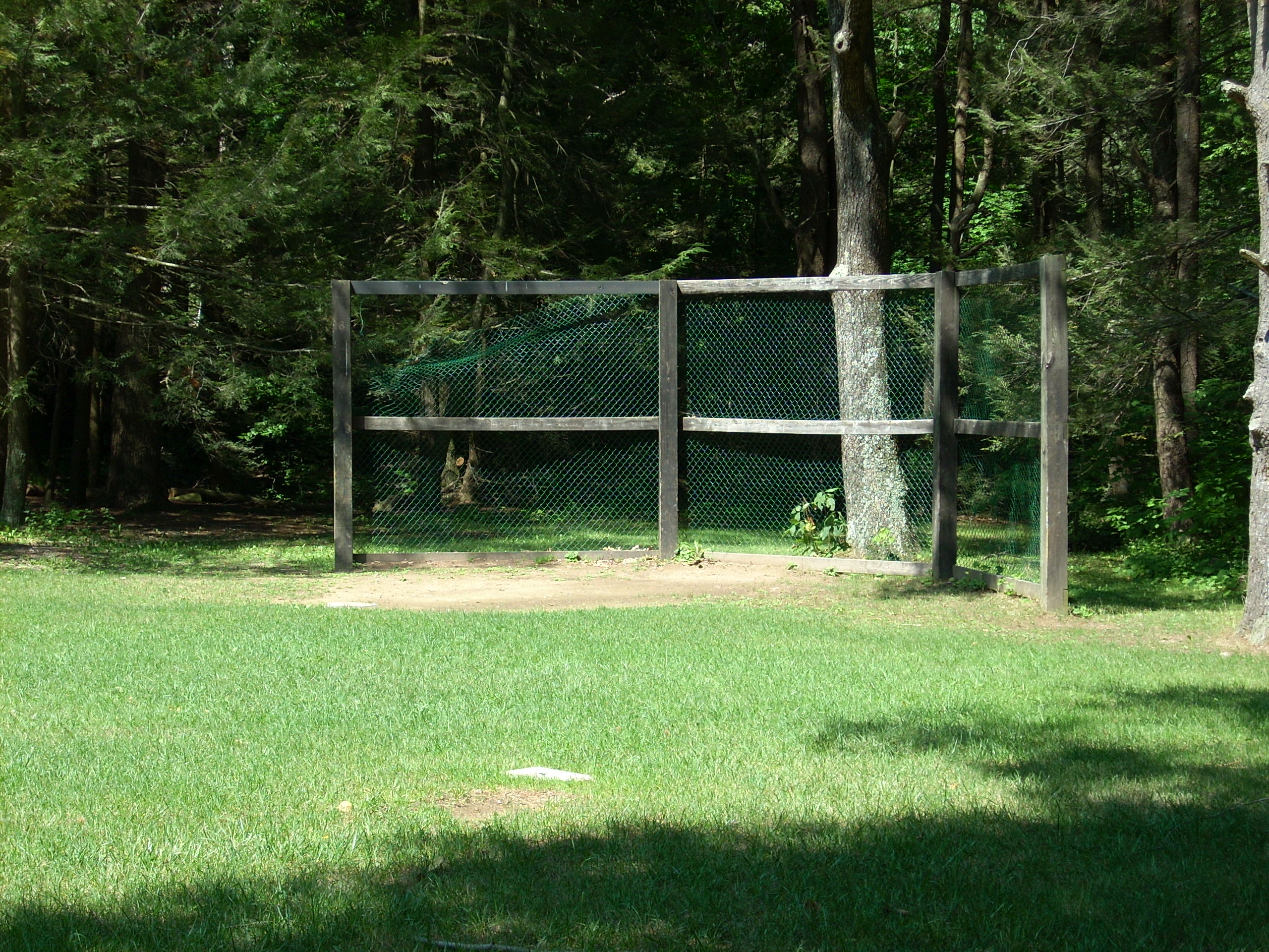 The ballfield at Ravensburg State Park, Clinton County, Pennsylvania, USA (within the Tiadaghton State Forest).